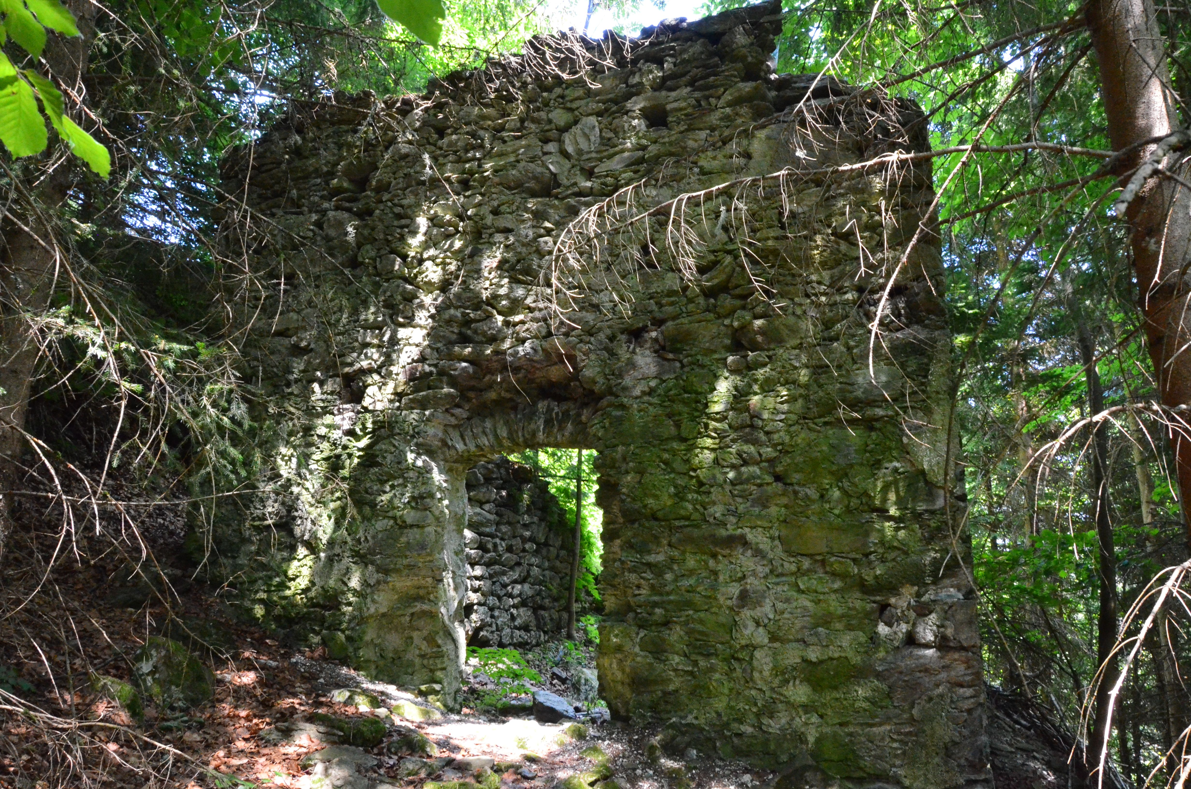 Castle ruin Old Albeck at Sirnitz, municipality Albeck, district Feldkirchen, Carinthia / Austria / EU